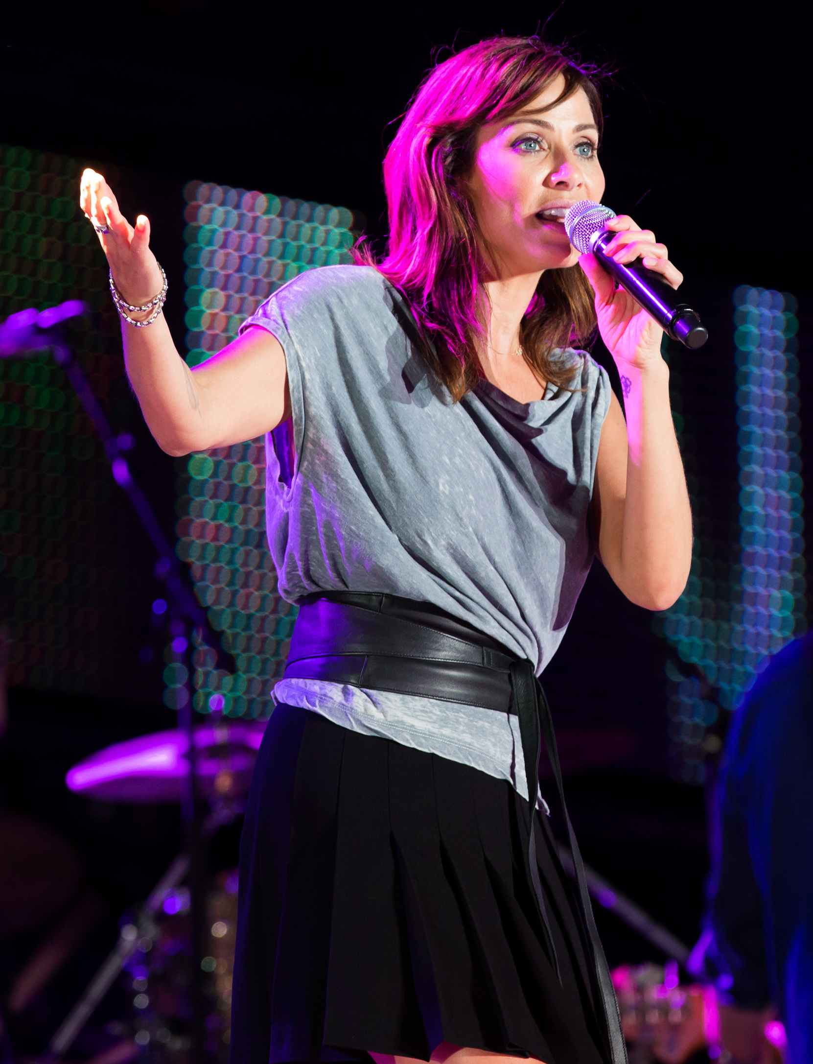 Natalie Imbruglia at Donauinselfest 2015 in Vienna, Austria